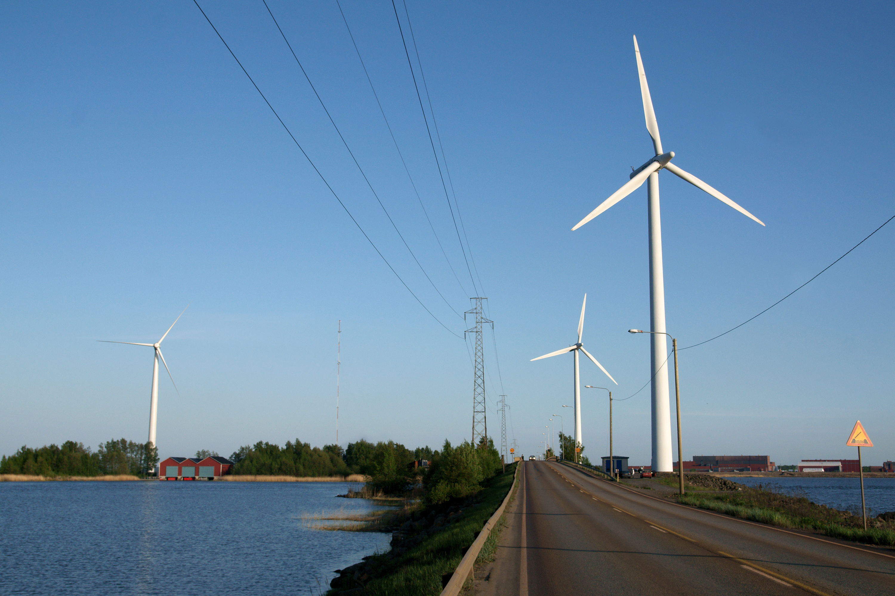 Regional road 269 in Pori, Finland